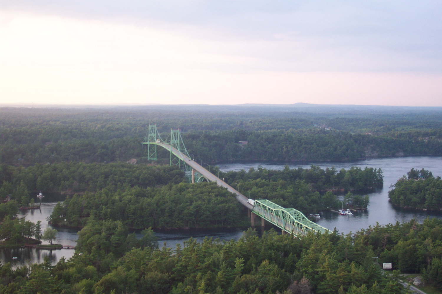 The 1000 Islands Bridge on the Canadian side. The picture was taken from atop of a Canadian observation tower that is about 300 yards before the U.S.-Canadian border crossing